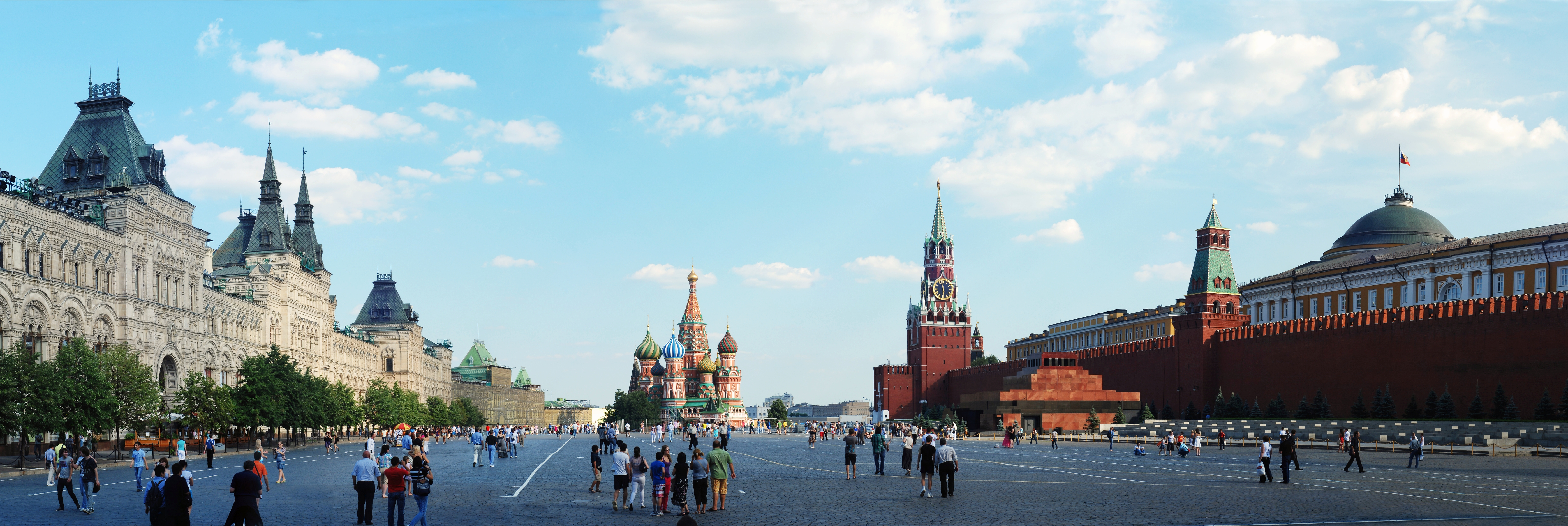 Red Square, Moscow. View from northwest